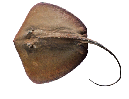 Jenkins' whipray (Himantura jenkinsii)